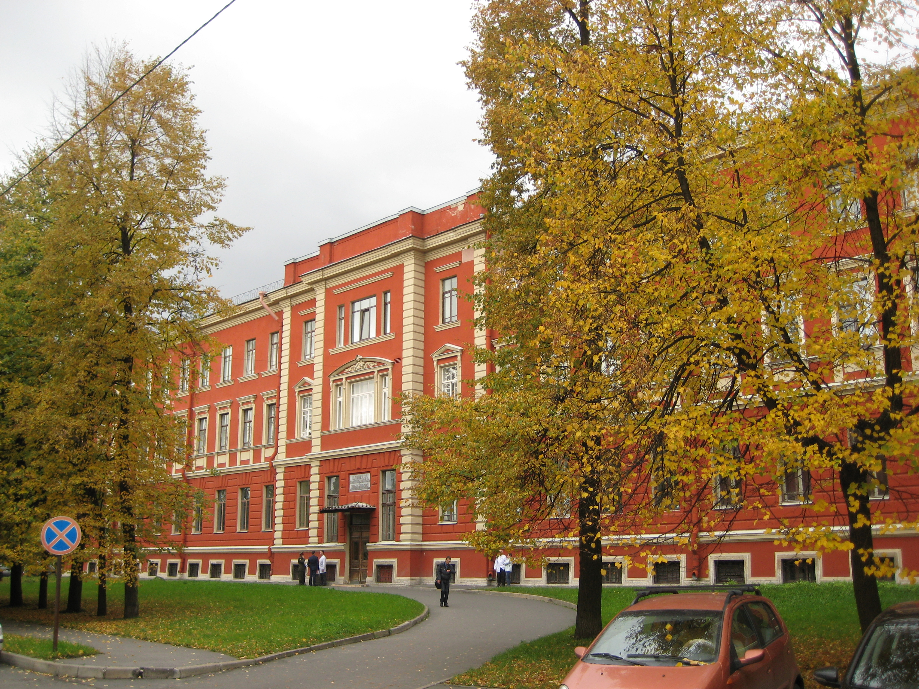 St. Petersburg. Clinical Street 5. Imperial Academy of Medical and Surgical (Military Medical). Clinic throat, nose and ear diseases. Years 1900-02 (architect A.Vishnyakov).